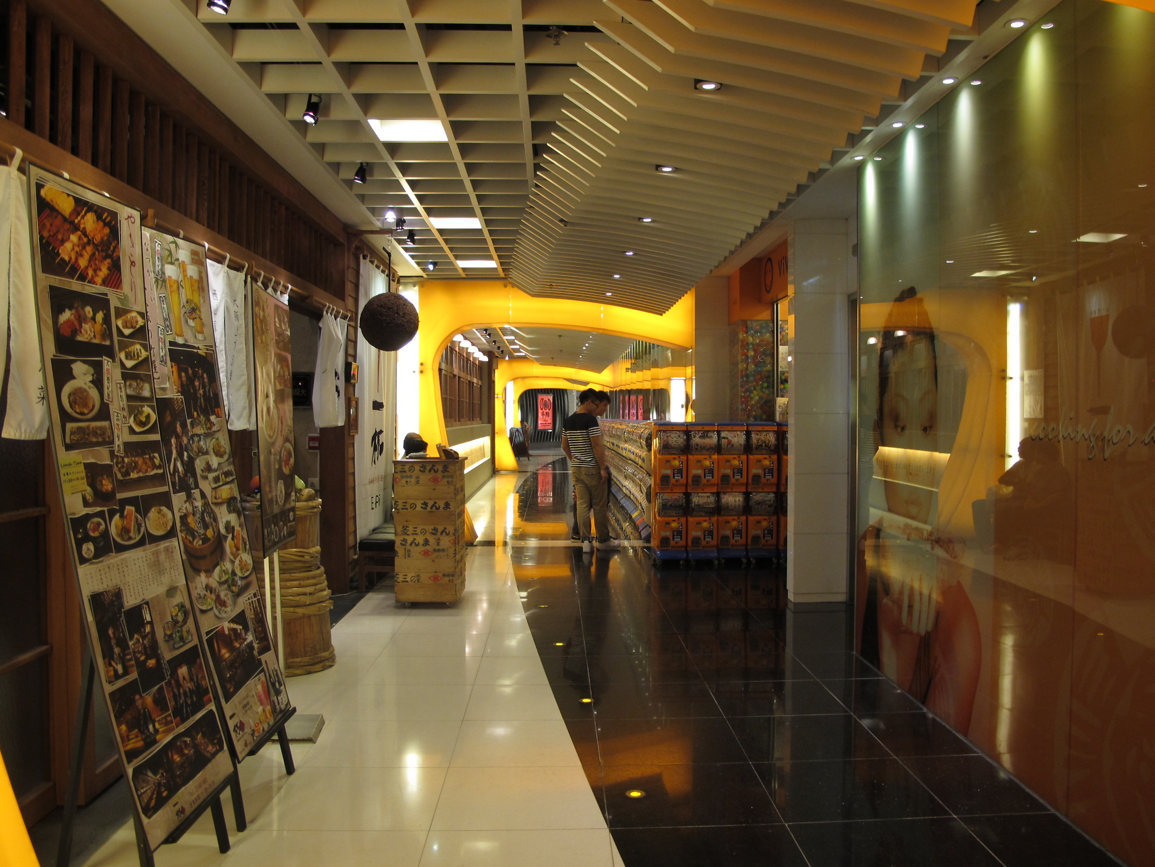 apm Level 4 Food Street